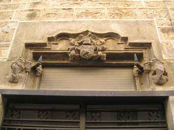 Coat of arms in the façade of Cal Gallisà in Riudoms, which it is supposed to be from the family of the Nebot brothers.